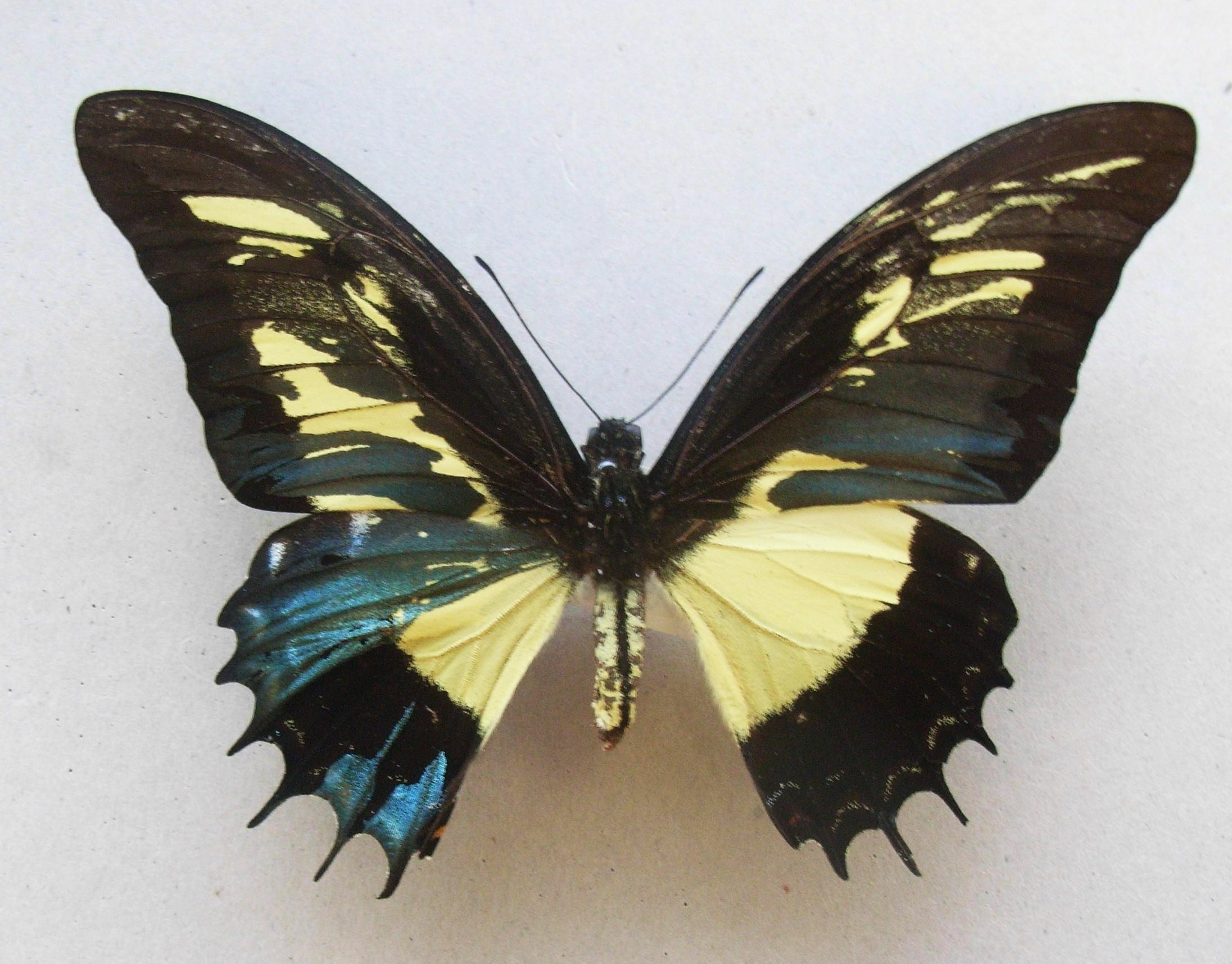 Papilio androgeus gynandromorph:Papilionidae